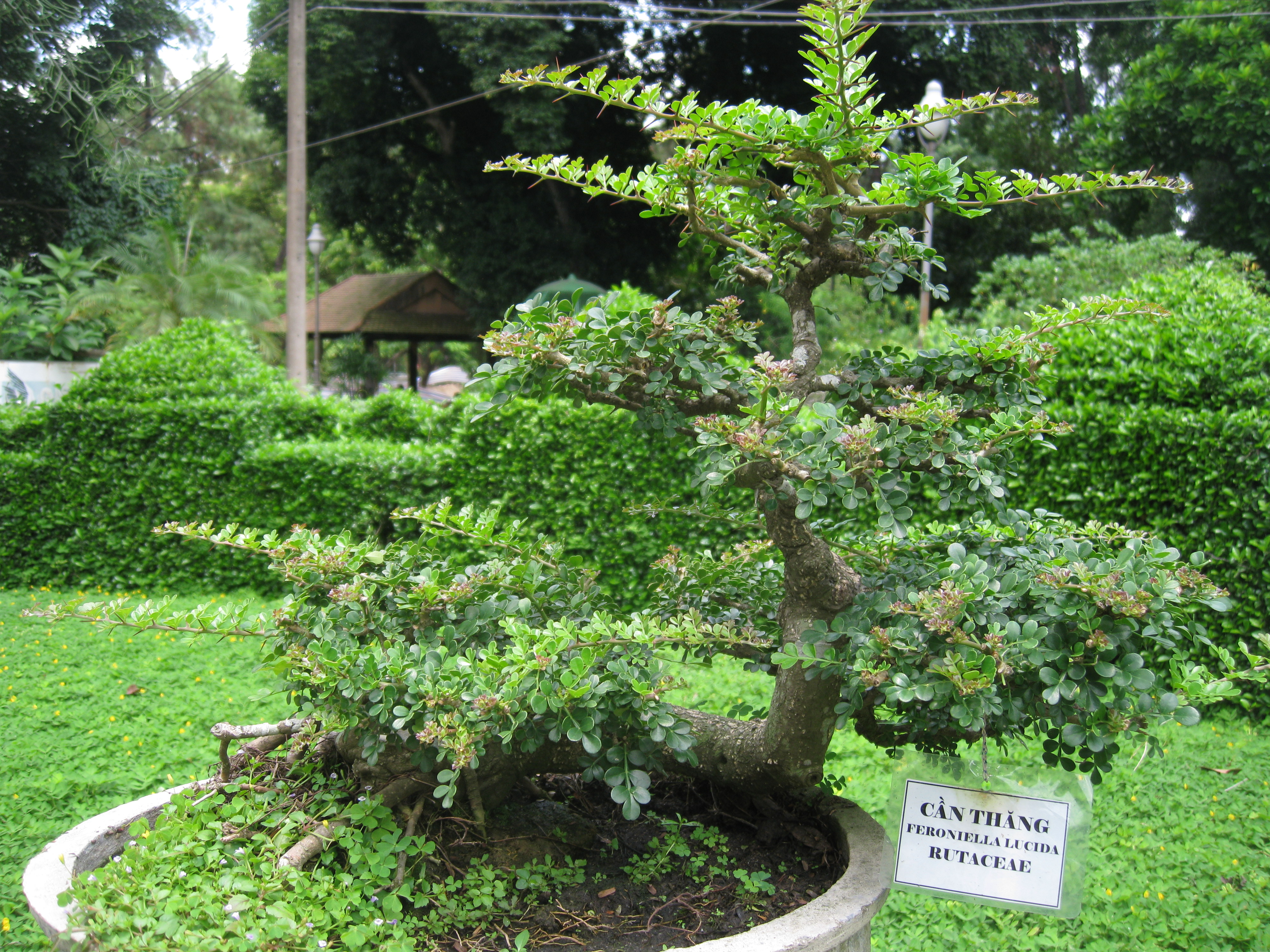 Feroniella lucida bonsai, Saigon Zoo and Botanical Gardens.